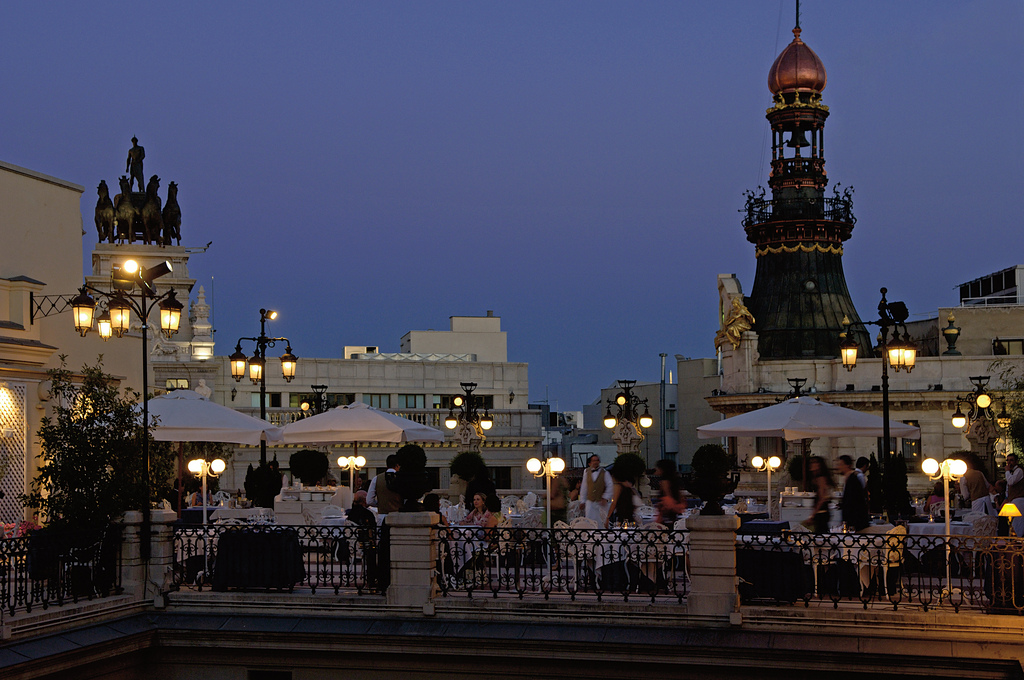 Casino Restaurant Terrace This photograph can be used for publications, including this copyright statement: “©PromoMadrid, author Max Alexander”. Esta fotografía puede usarse en publicaciones, incluyendo la declaración “©PromoMadrid, autor Max Alexander”.